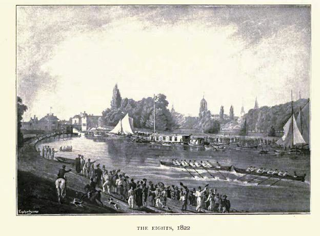 The (cropped) picture shows part of the earliest-known scene of a race between two eight-oared boats at Oxford University. It has been suggested that the picture shows the "disputed bump" of 1822 in a race between Jesus College and Brasenose College, but this is uncertain. See Sherwood's book at page 10 for more information; also Jesus College Boat Club